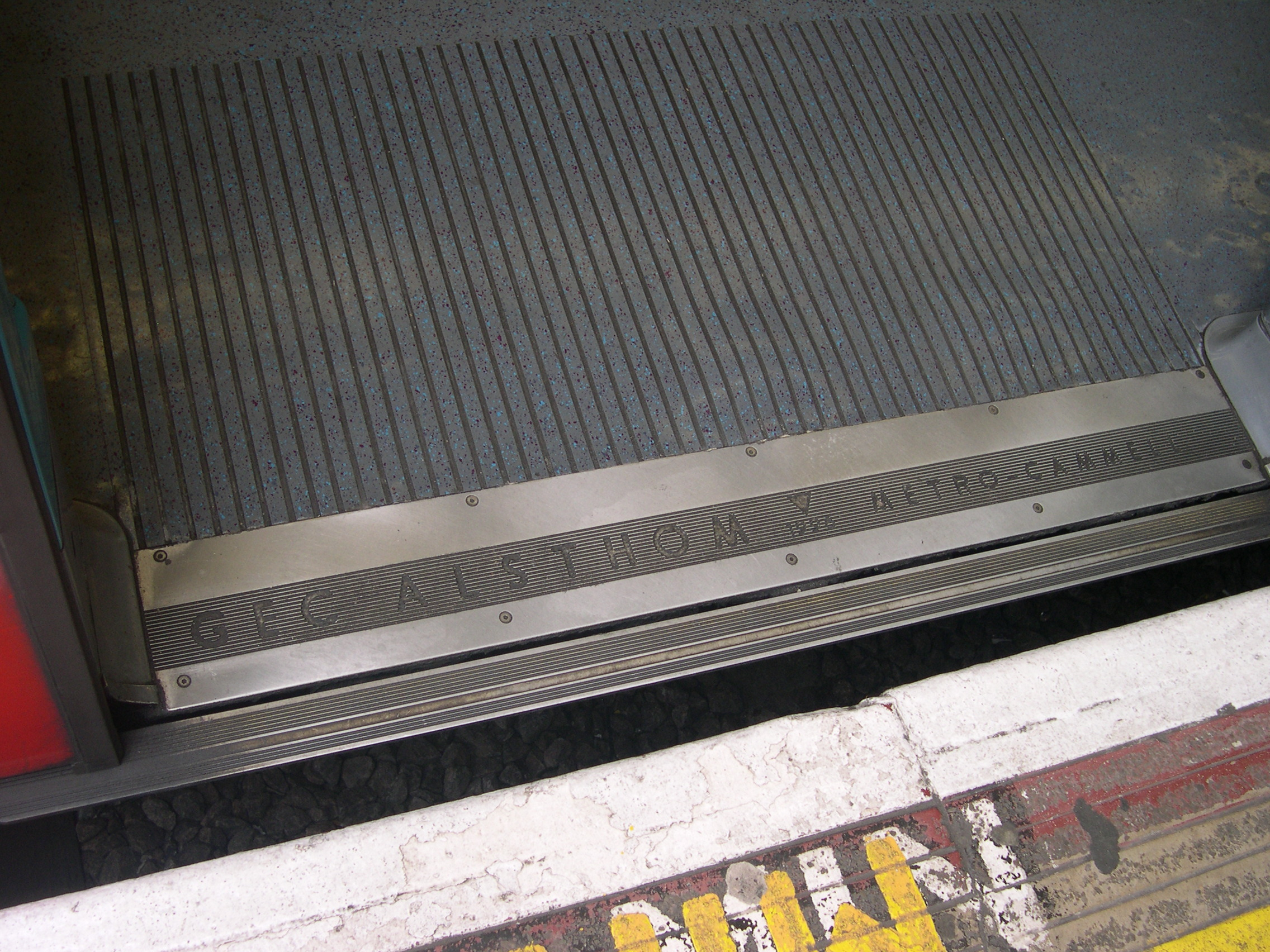 Manufacturer's name on a 1996 stock doorway